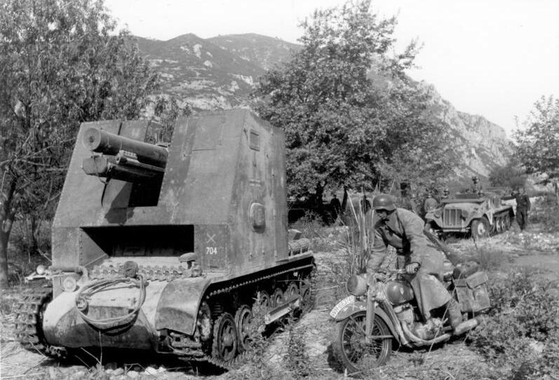 german sIG 33 gun on Pz.Kpfw. I chassis, DKW NZ350 motorbike in Greece 1941. Original caption reads: Greece - Heavy Infantry-Gun 33 on Panzer I chassis type B of the 5th Panzerdivision[1], PK 690